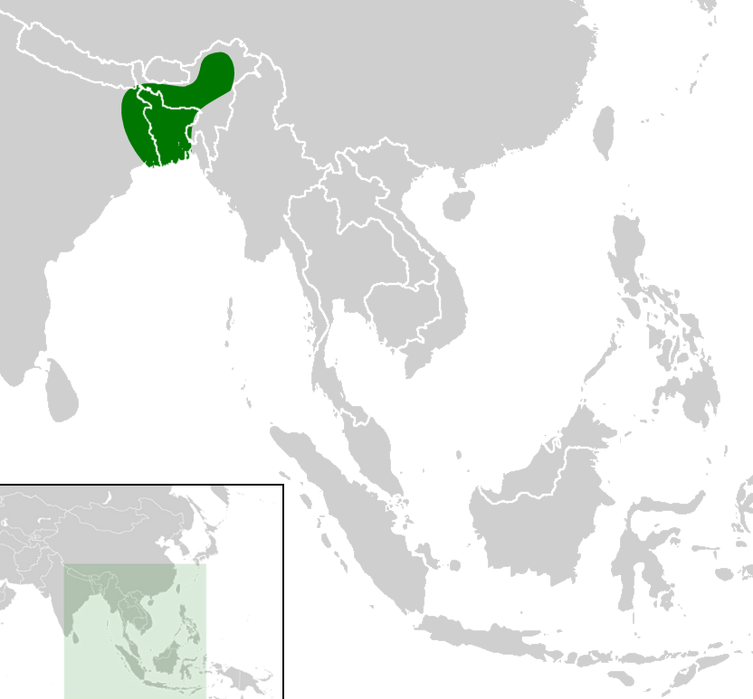 A locator SVG map of Asia, based off of file:Asie.svg.